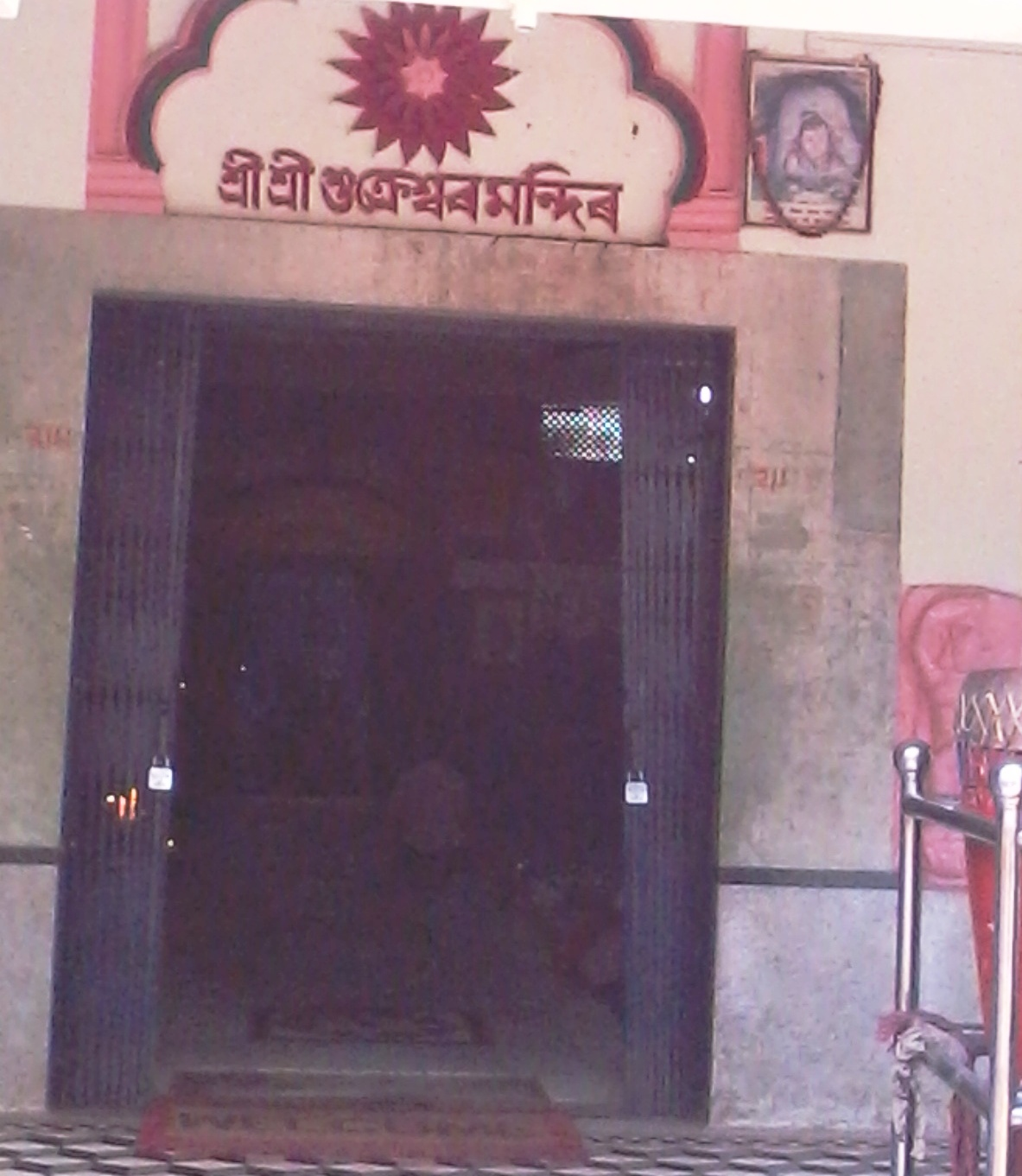 Took this Photograph during a visit to the Temple in 14 August, 2012, Panbazaar, Guwahati